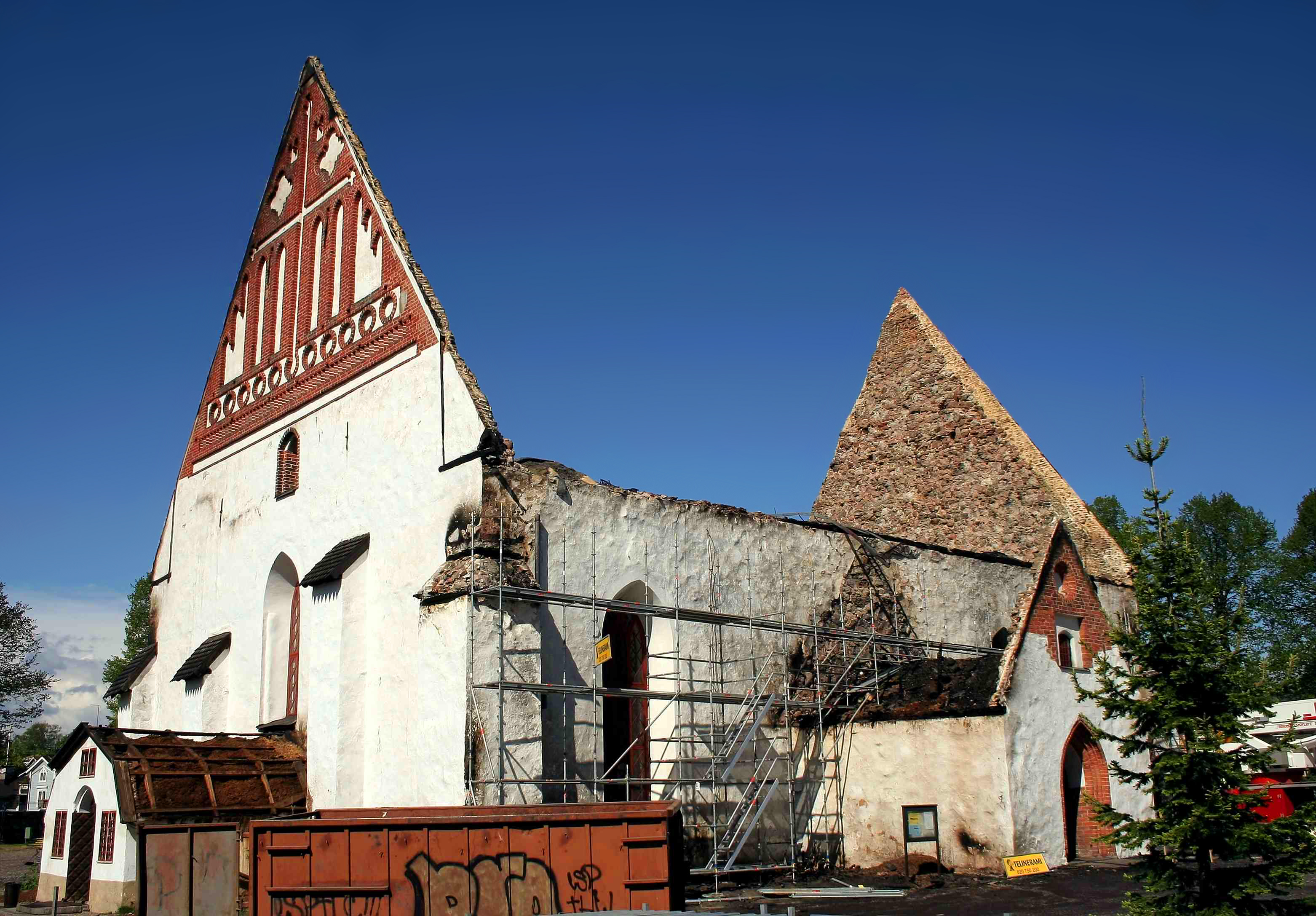 The Porvoo Cathedral in Porvoo, Finland after arson of 2006-05-29. The church was originally built in 13th century and enlarged to the present form in 1414–1418 during the end of the Catholic era.